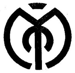 Mukden City mark from official document 奉天市公署要览 1937